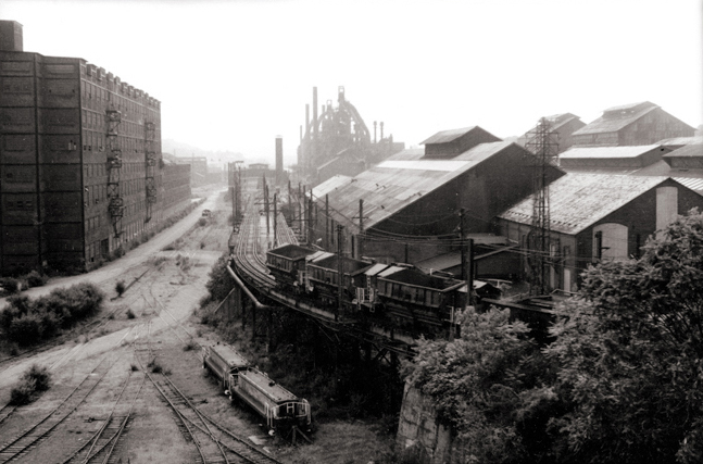 The Lehigh Area of the Bethlehem Steel Mill Photo: Jeremy Blakeslee